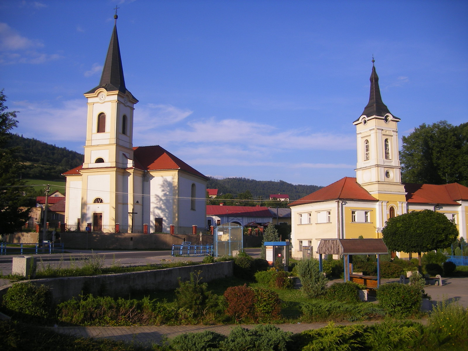 Nálepkovo - catholic church and town hall